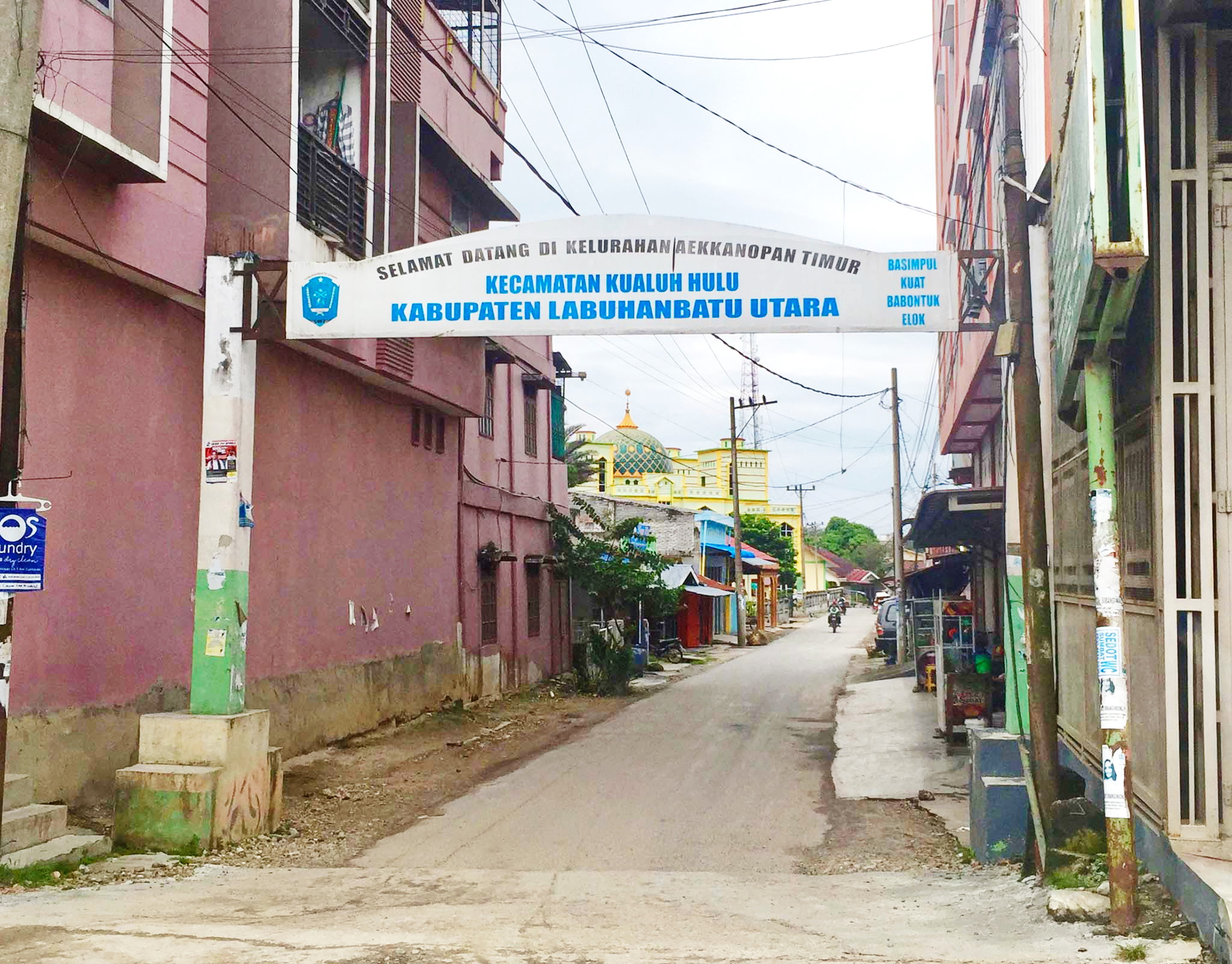 welcome sign to Aek Kanopan Timur, Kualuh Hulu, Labuhanbatu Utara